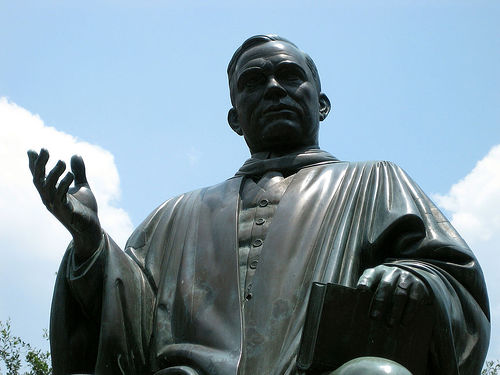 Statue of Albert A. Murphree in Peabody Courtyard, University of Florida campus, Gainesville, Florida, United States.